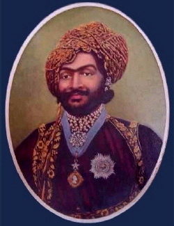 Mohammad Rasul Khanji, Nawab of Junagadh, reign 1892 - 1911